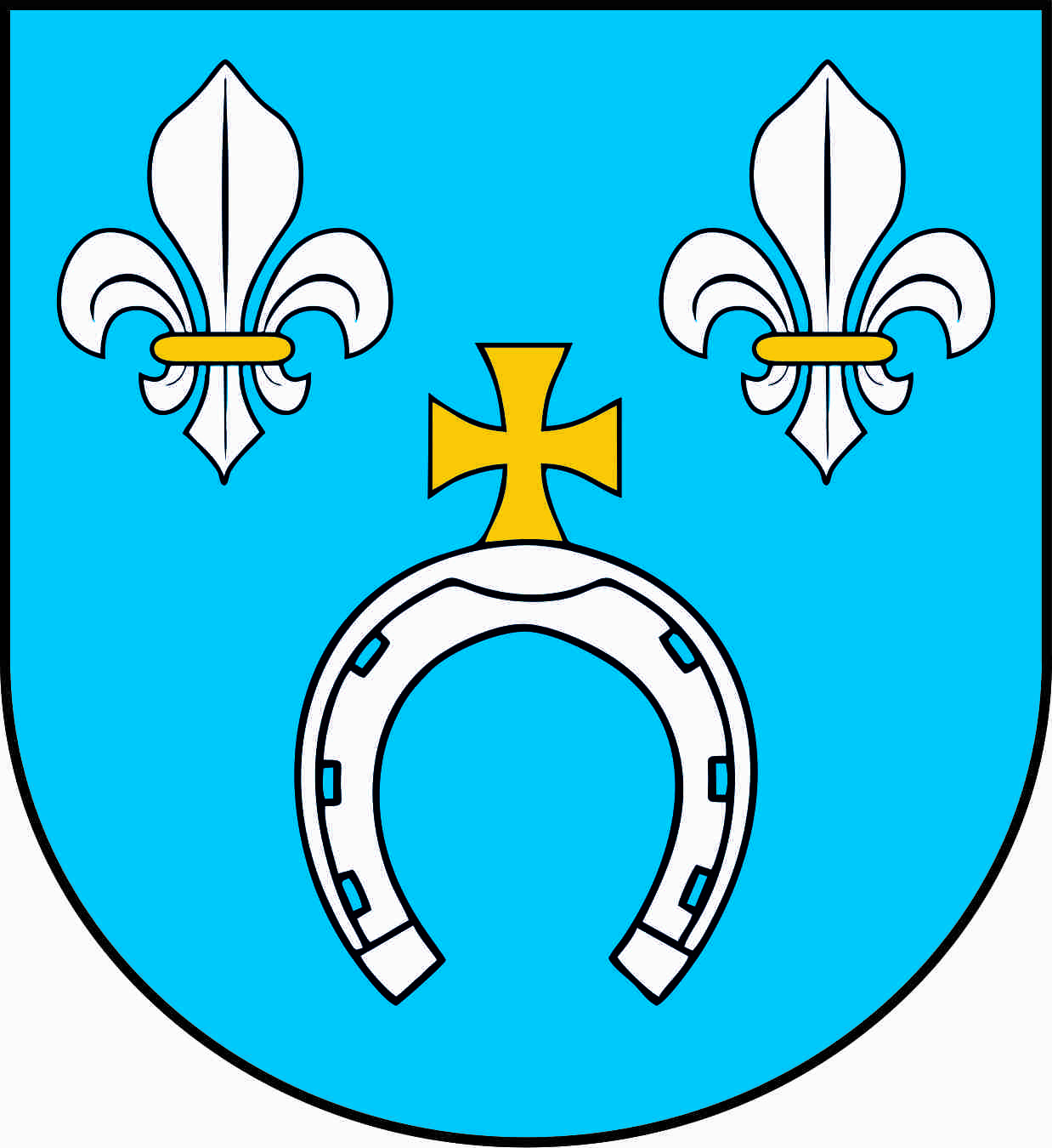 Official COA of Jazowsko village as aproved by board of village (bill 34/V/2019 from 26.02.2019)